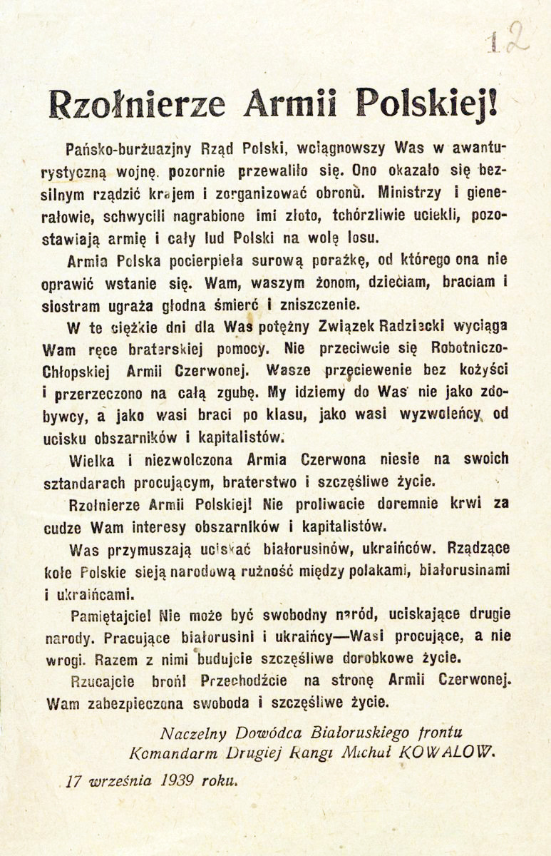 Soviet propaganda leaflet to the Polish soldiers, issued during the Soviet invasion of Poland.